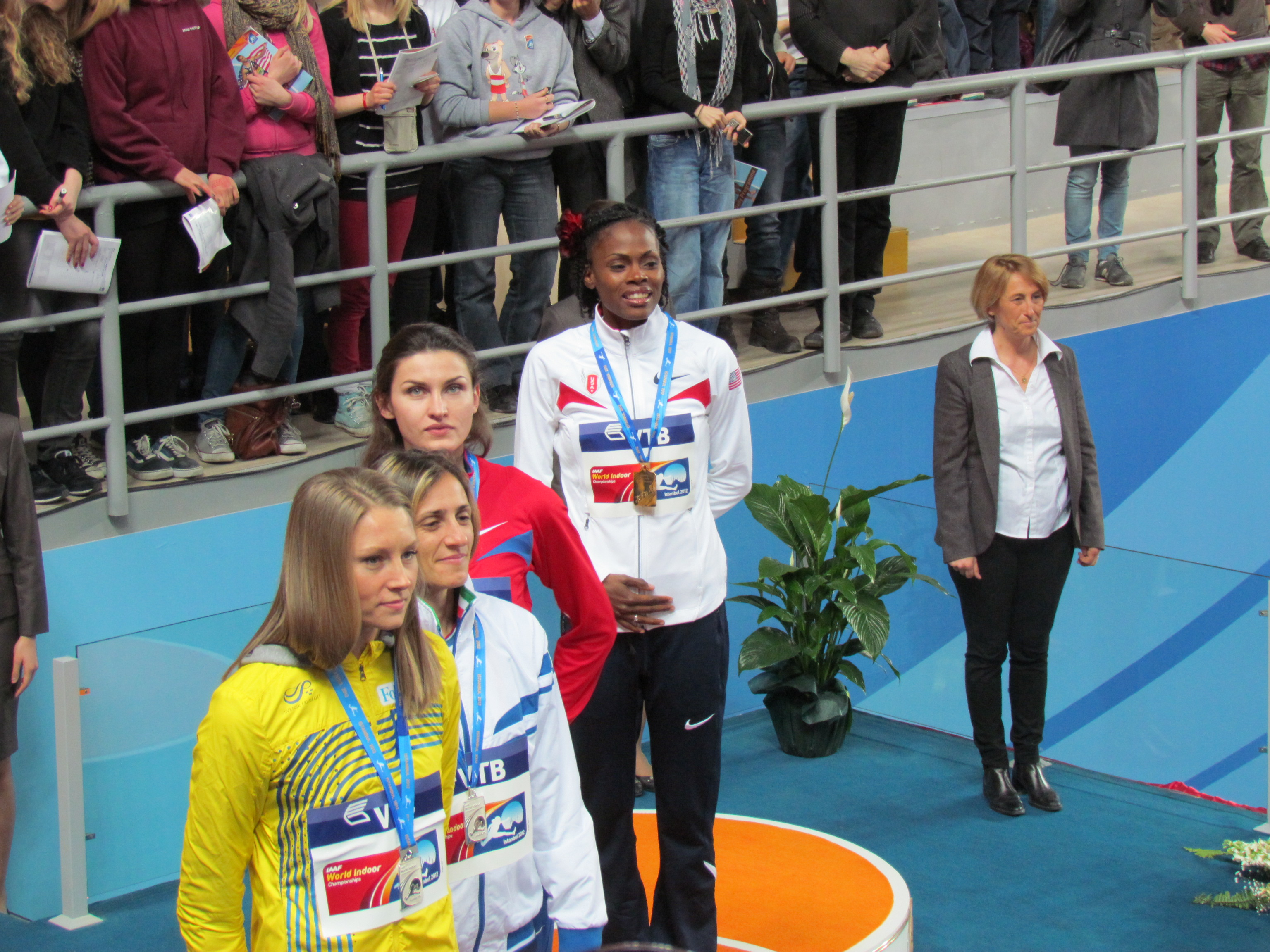 The 2012 IAAF World Indoor Championships in Athletics was the 14th edition of the global-level indoor track and field competition and was held between March 9–11, 2012 at the Ataköy Athletics Arena in Istanbul, Turkey.